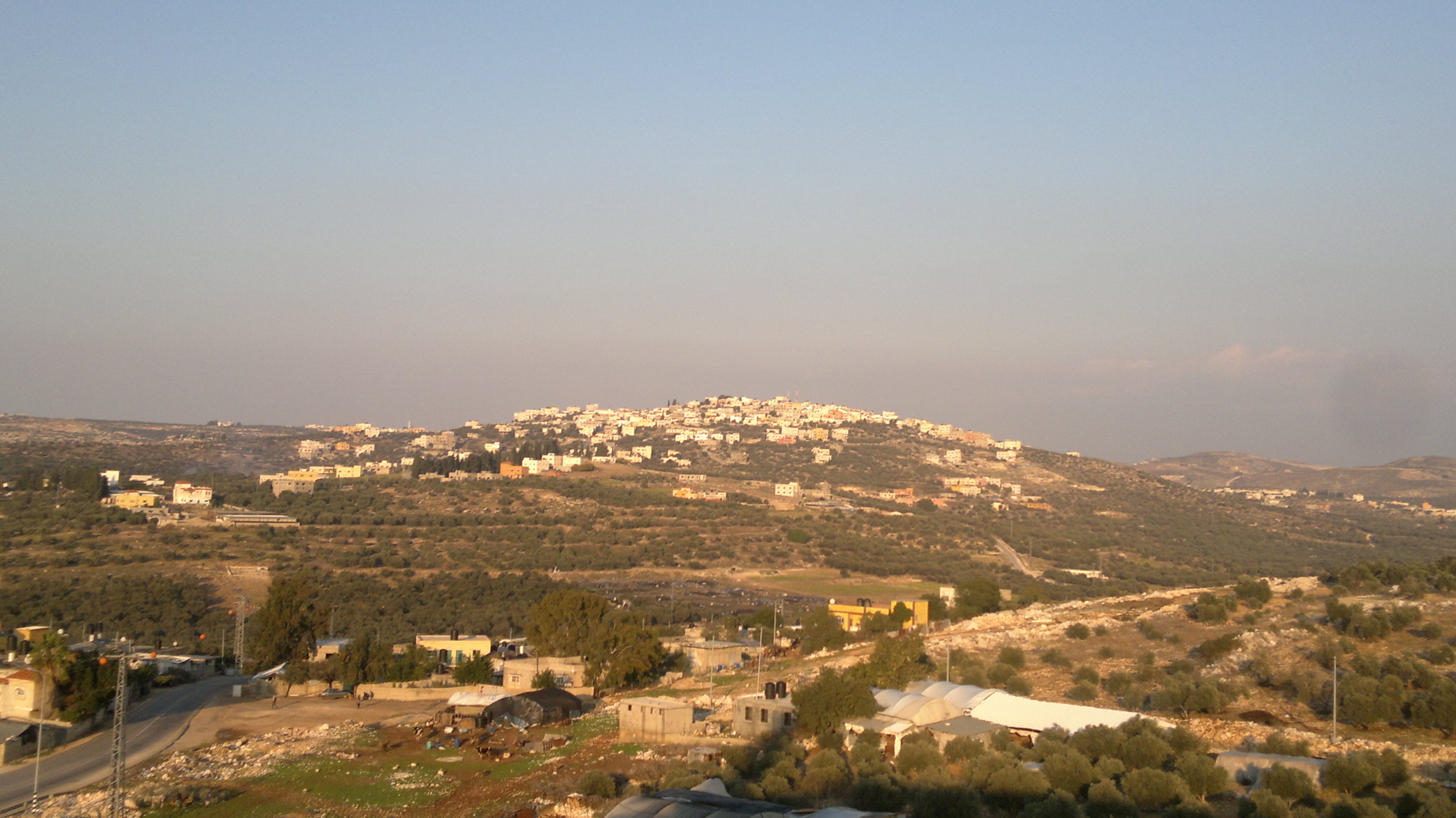 Ya'bad is a Palestinian town in the northern West Bank, 20 kilometers west of Jenin in the Jenin Governorate